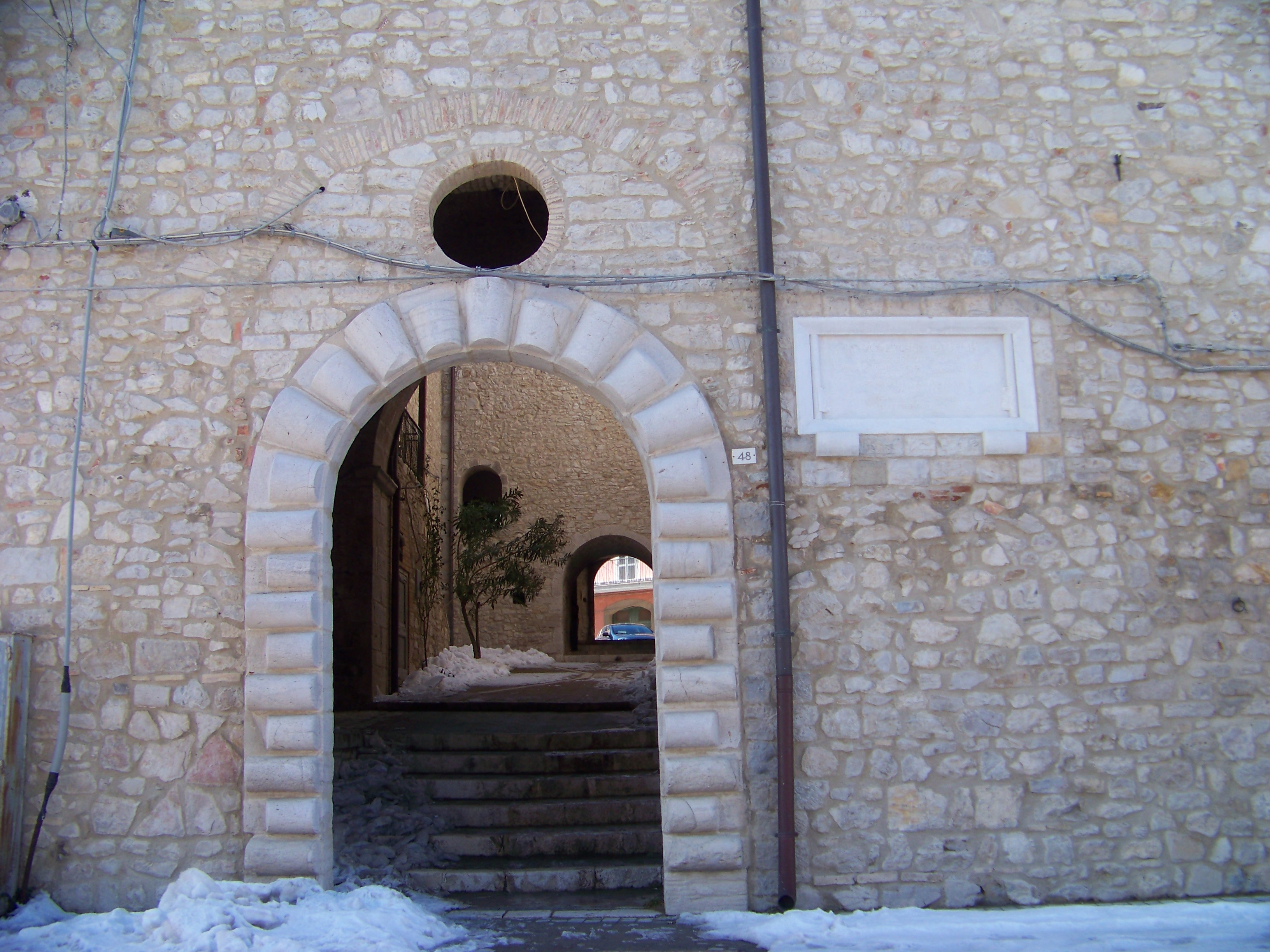 "Second entrance" of Palazzo Marchesale in Colletorto,Campobasso,Italy